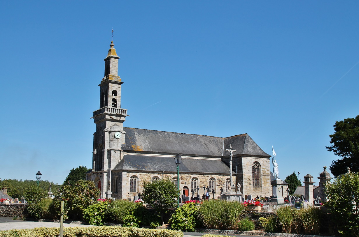 église Ste Pompée